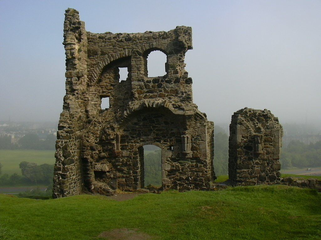 St Anthony's Chapel, Holyrood Park, Edinburgh. A ruined 15th centruy chapel, a beautifully peaceful spot